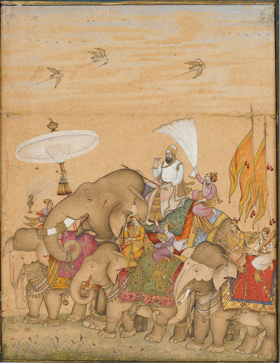 Sultan Ibrahim ‘Adil Shah II in Procession; painting by the school of ‘Ali Riza, Bijapur, early seventeenth century